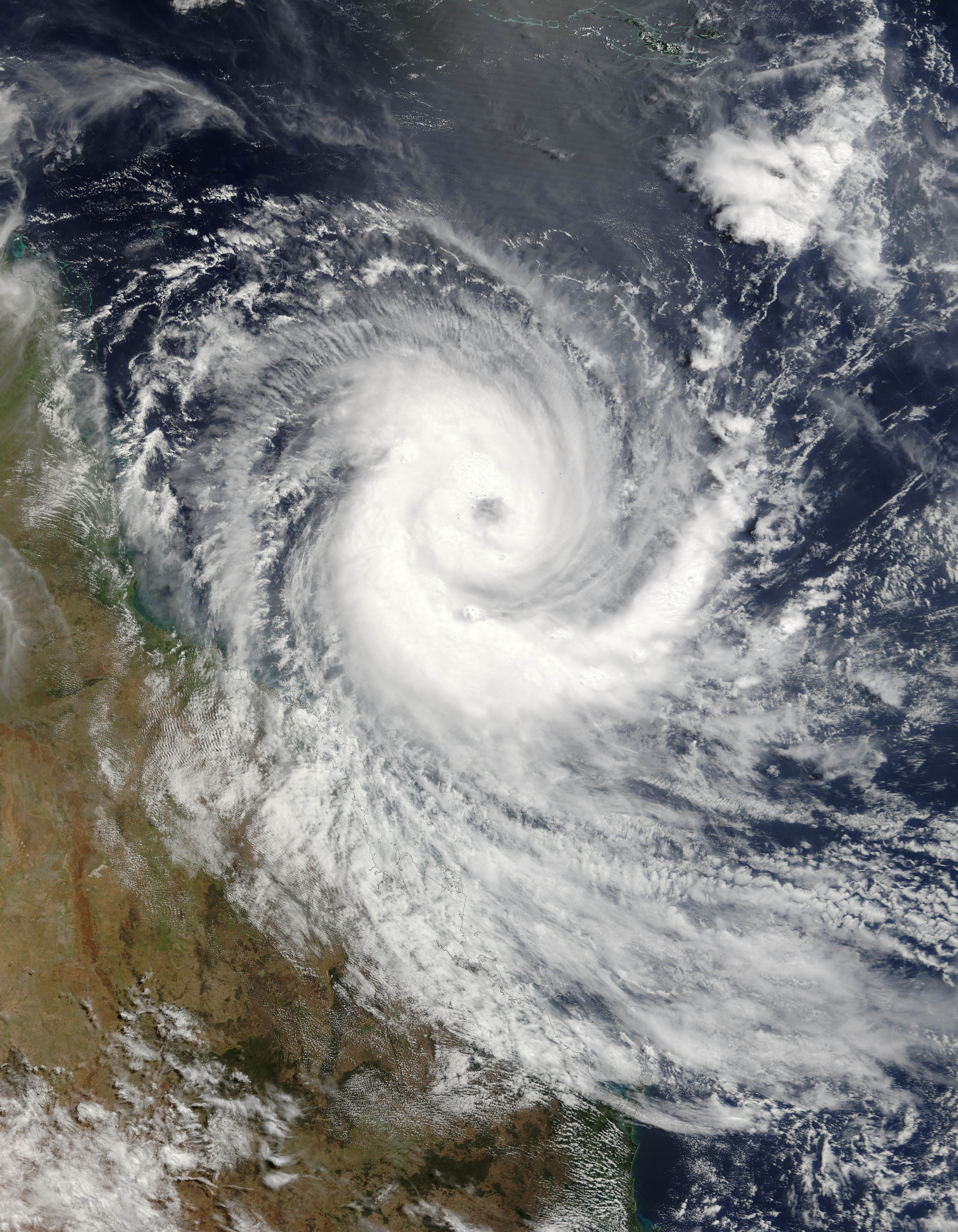 Australia on March 18, 2006, but built strength rapidly. When the Moderate Resolution Imaging Spectroradiometer (MODIS) on the Terra satellite observed the storm at 11:55 a.m. Eastern Australian Daylight Time (00:55 UTC) on March 19, 2006, only a day later, Larry had already reached considerable size and power, with peak sustained winds of 120 kilometers per hour (75 miles per hour). Within the next eighteen hours, according to the Tropical Storm information service at the University of Hawaii, sustained winds reached 185 km/hr (115 mph), just before the storm came ashore. It lost power over land. This image shows Cyclone Larry as it was bearing down on the coast of Queensland over the Great Barrier Reef. During the next day, Larry caused considerable damage to coastal towns and property, flattening sugar cane fields. According to the Australian Broadcasting Corporation, as much as 90 percent of the Australian banana crop may have been lost in this single storm. Since many trees have been destroyed, it may be many years before the banana industry recovers. The high-resolution image provided above is provided at the full MODIS spatial resolution (level of detail) of 250 meters per pixel. The MODIS Rapid Response System also provides this image at additional resolutions.